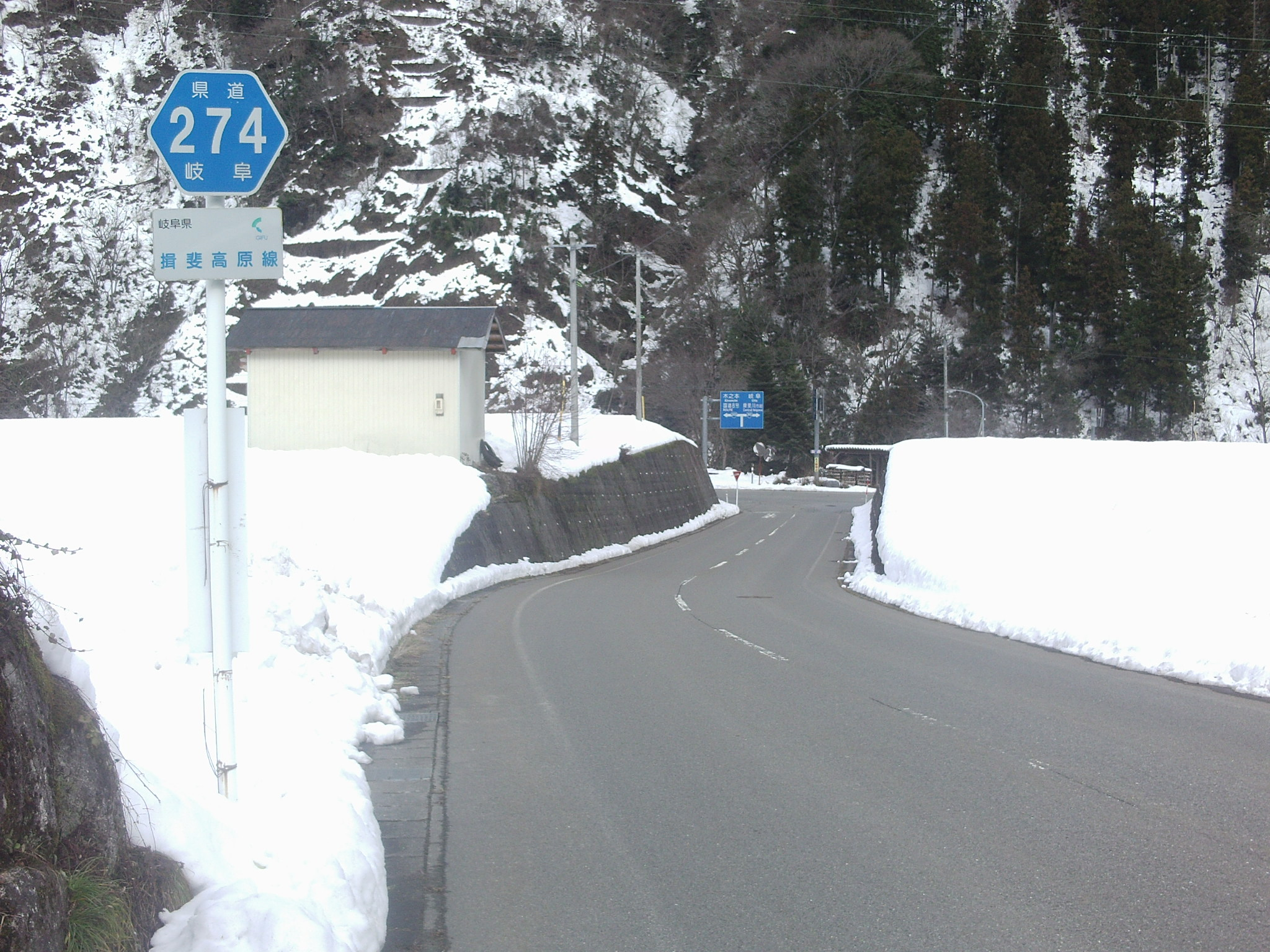 Ending point of Gifu prefectural road No.274 in Sakauchi Sakamoto, Ibigawa town, Ibi-gun, Gifu.